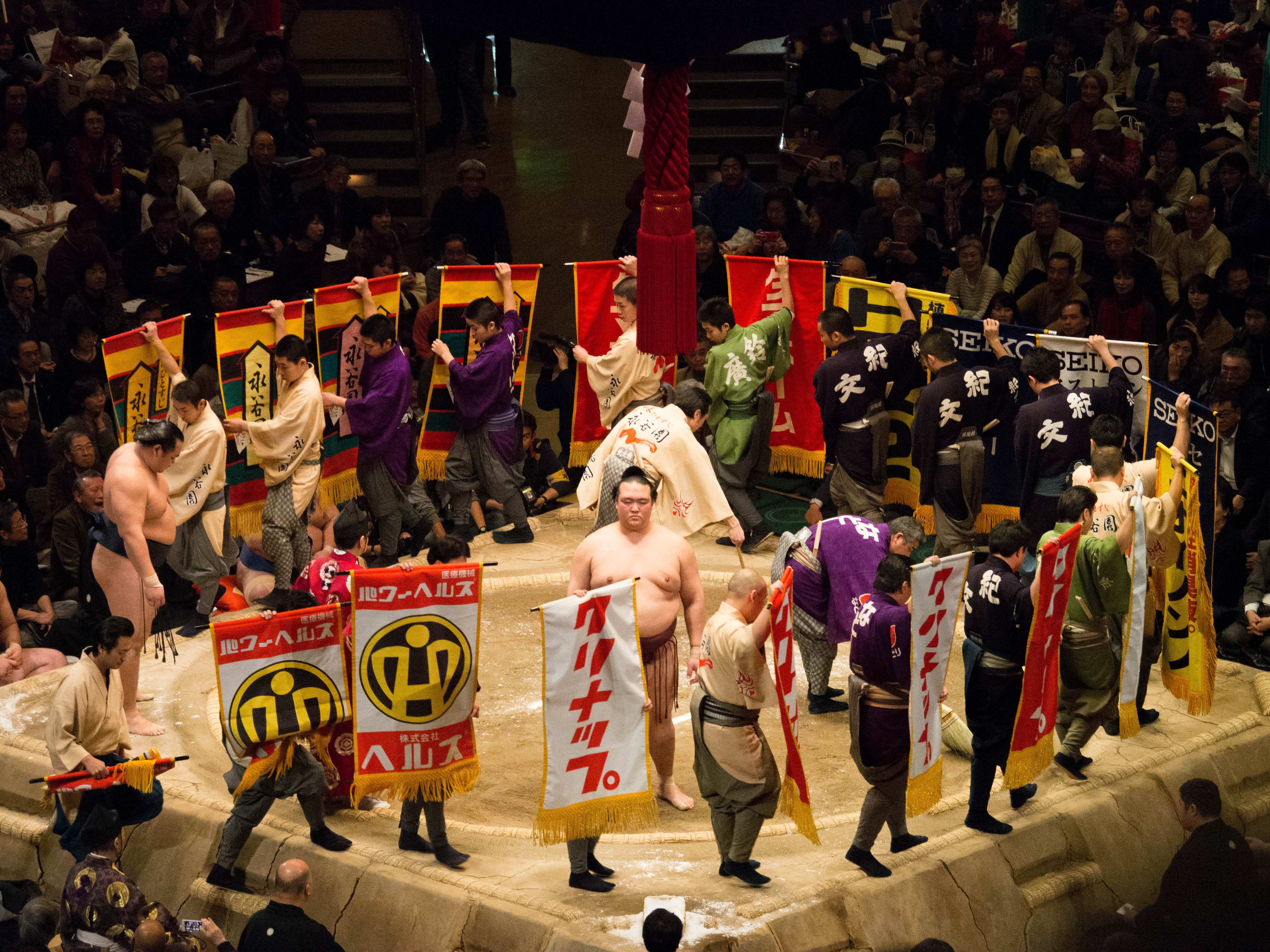 Advertising banners being paraded around the ring by the yobidashi, before the bout between Ōzeki Kisenosato and Ōzeki Kakuryū at the 2014 January Grand Sumo Tournament in Tokyo.